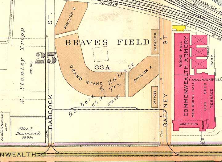 1916 historical map, showing the loop at Braves Field (now Nickerson Field) in Boston. Gaffney Street is now Harry Agganis Way, and the building marked "office" is now the BU Police station. This loop was used to service the field and short-turn streetcars until 1962.